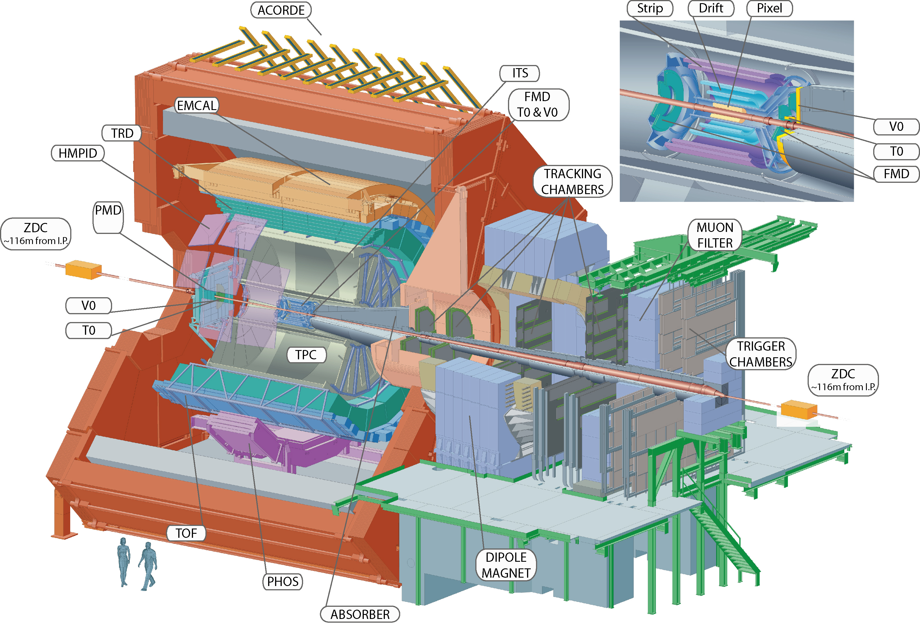 Schematics of the ALICE subdetectors